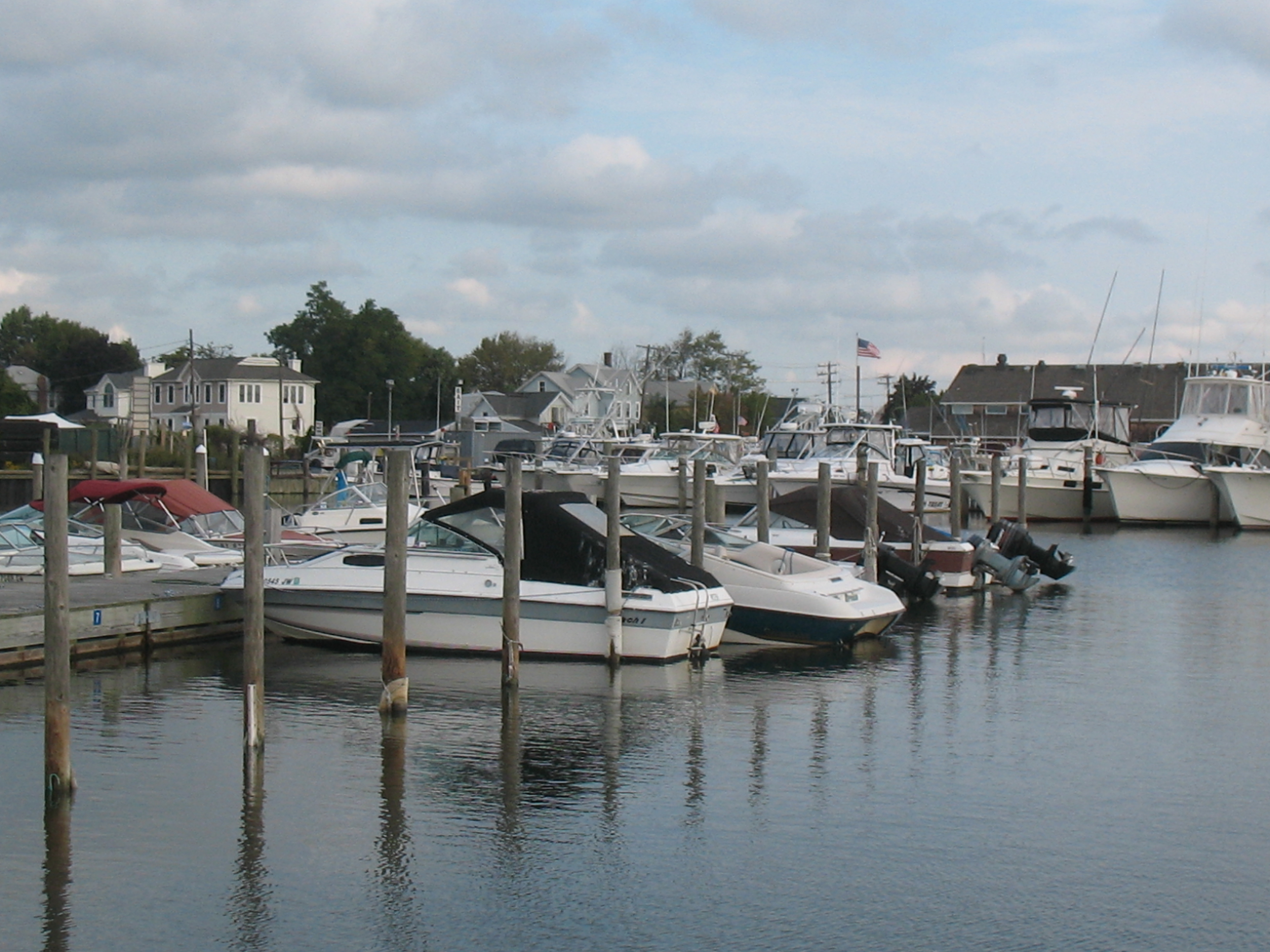 Bayshore New York Marina By Stevan